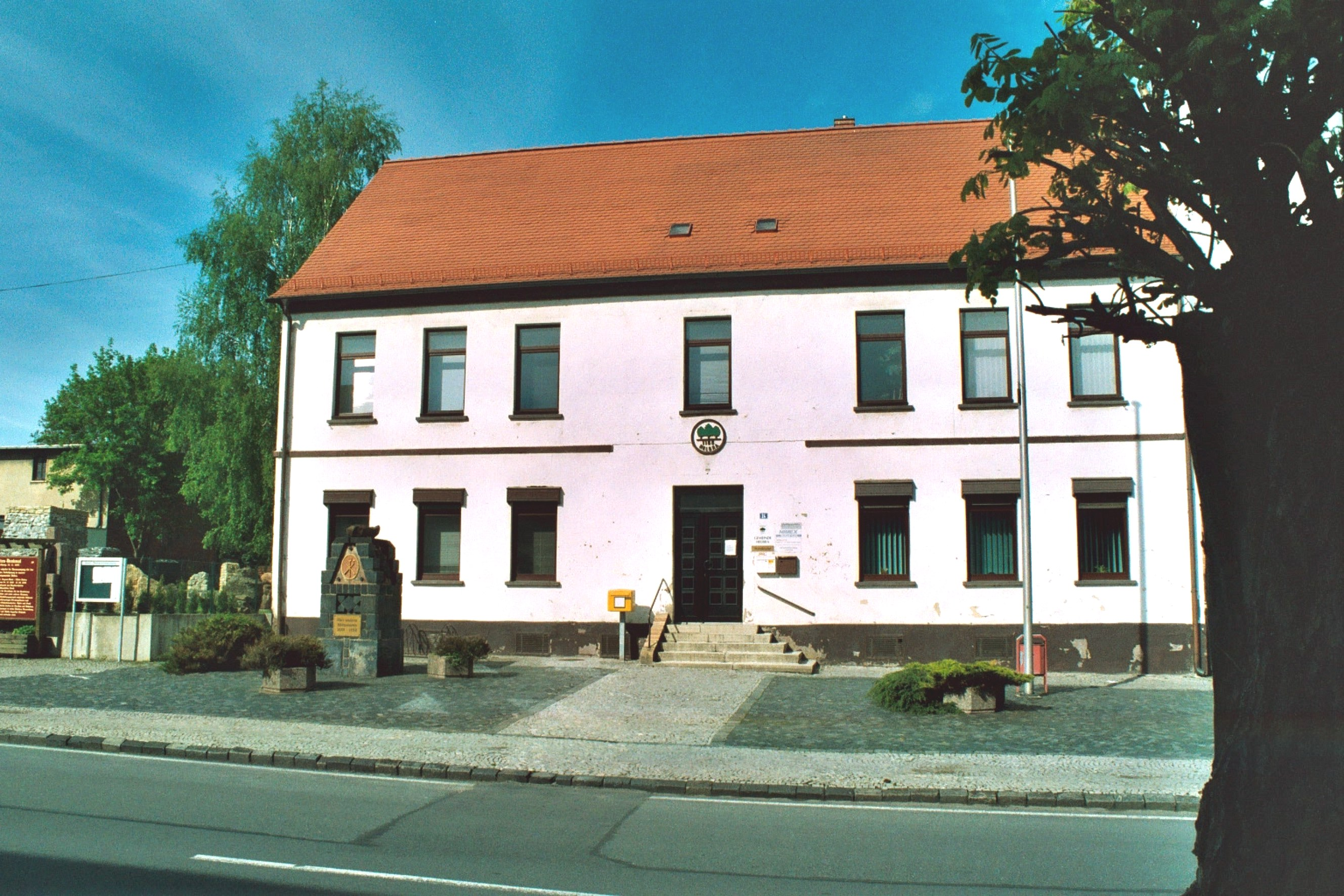 Helbra, the former town hall